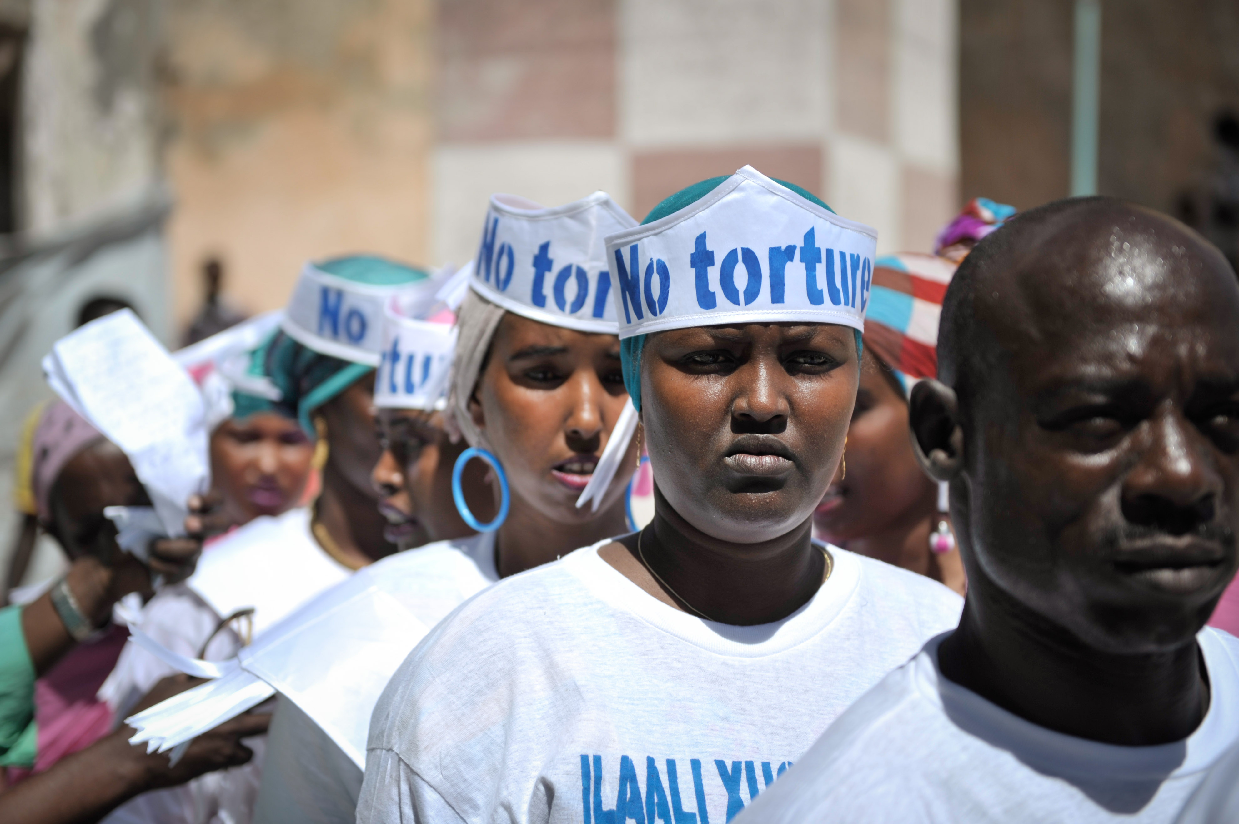 Singers wearing hats advocating "No Torture" line up before performing at a Human Rights Day event outside of Mogadishu Central Prison in Somalia on December 10. Human Rights Day was marked in Somalia by an event held outside of Mogadishu Central Prison. A variety of performances by singers and dancers were held there, as well as speeches given by government officials and civil society representatives. AU UN IST PHOTO / Tobin Jones.